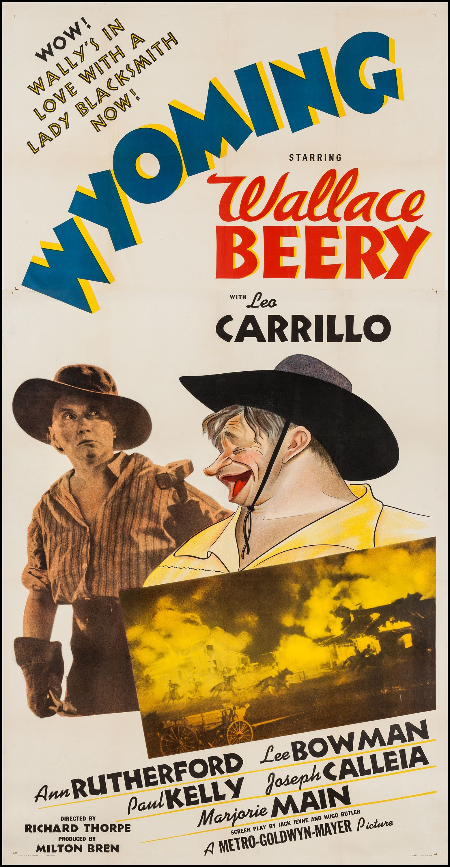 Poster for the American western film Wyoming (1940). The item has no copyright markings on it as can be seen in the links above. At bottom left is Litho in USA and {looks like} #8328 3-23 Wyoming. At bottom right is Tooker Litho Co. NY-they printed the poster.